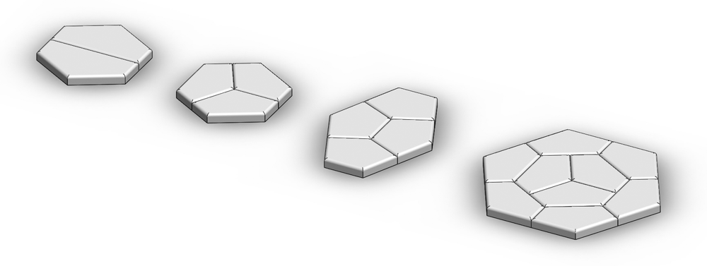 Examples of monohedral tessellation of hexagons with pentagons.